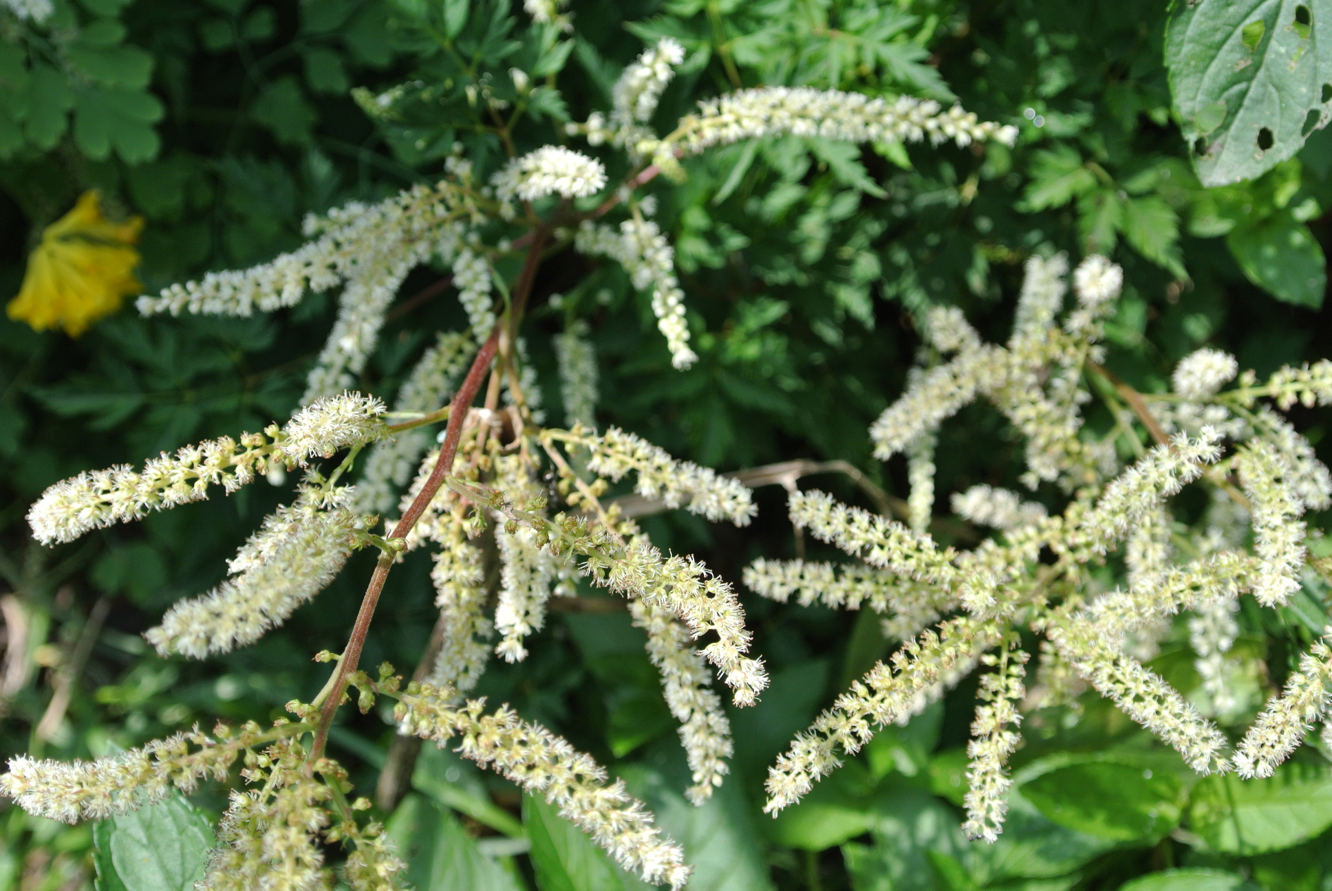 Aruncus aesthusifolius flowering in the garden of botanist Robert R. Kowal in Madison, Wisconsin